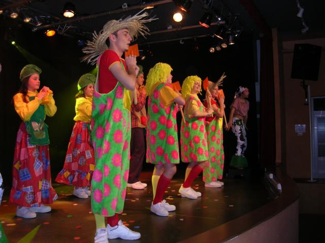 Spectable cabaret de Longchamp-sur-Aujon (10)